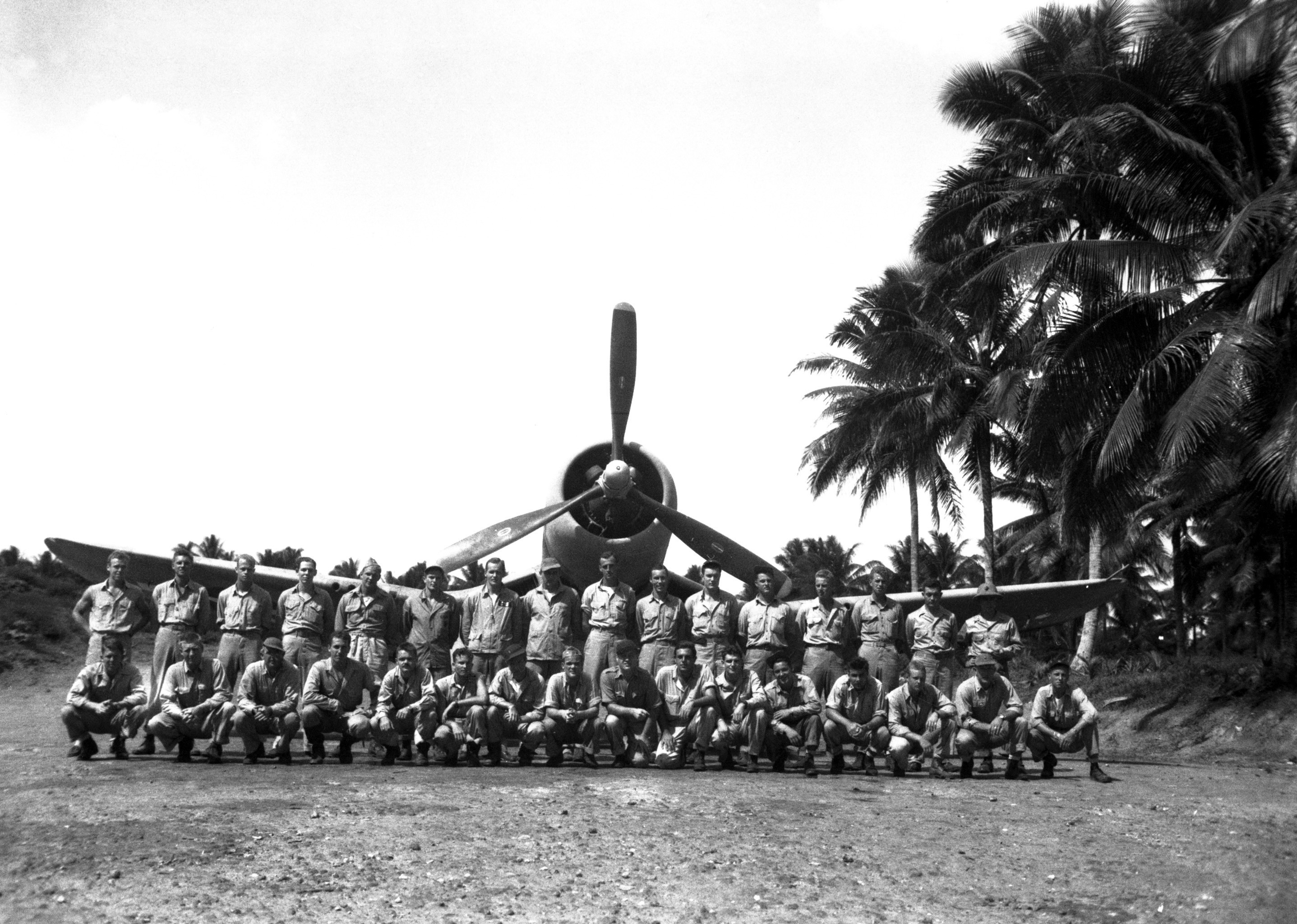 The squadron members of U.S. Marine Corps Fighting Squadron VMF-214 "Black Sheep" on Turtle Bay fighter strip, Espiritu Santo, New Hebrides. VMF-214 posed for a group picture before leaving for Munda, an F4U in background, ca. September 1943.